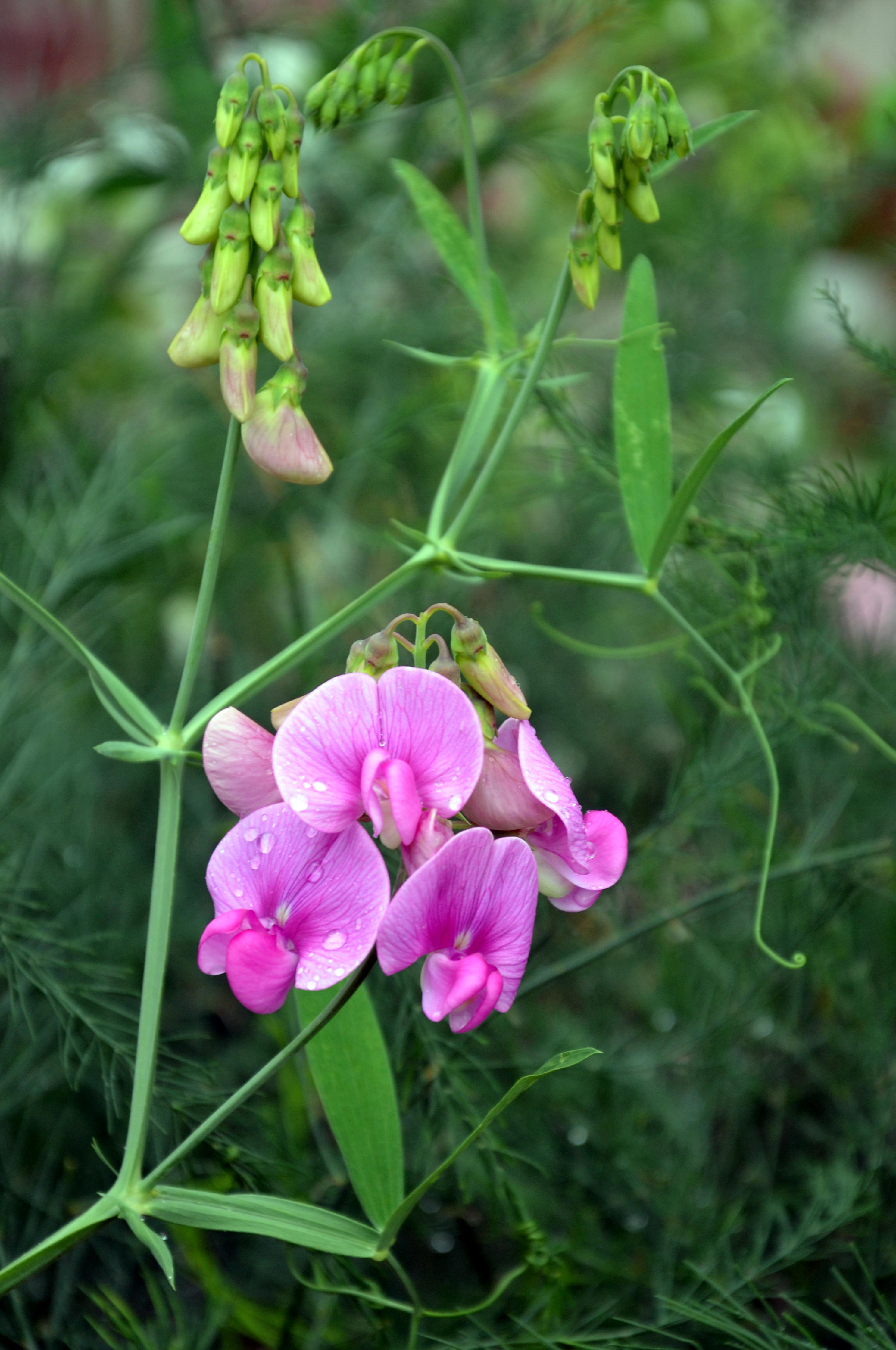 (Lathyrus sylvestris), Sanok